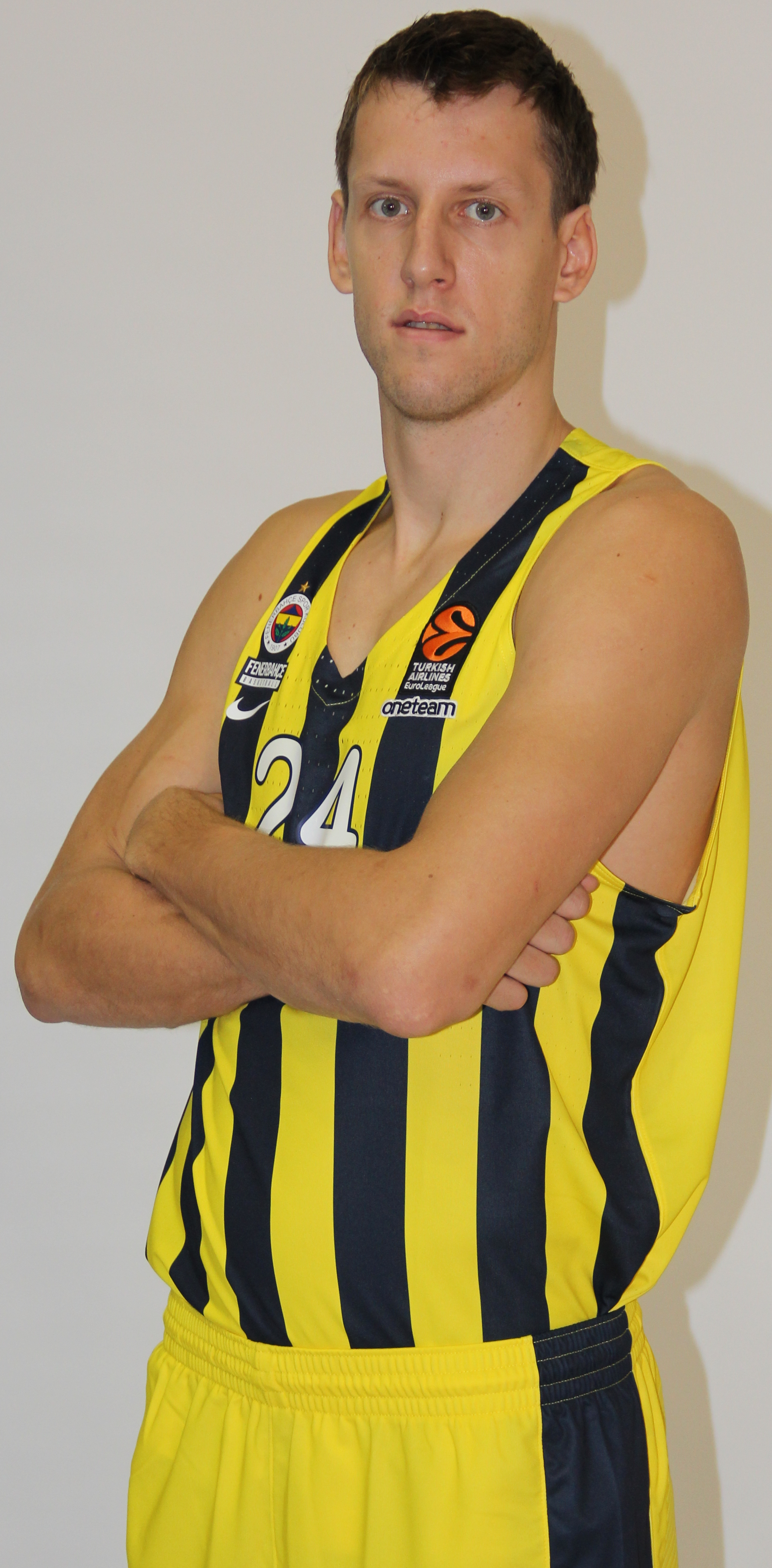 Jan Veselý Fenerbahçe Basketball Media Day 20180925